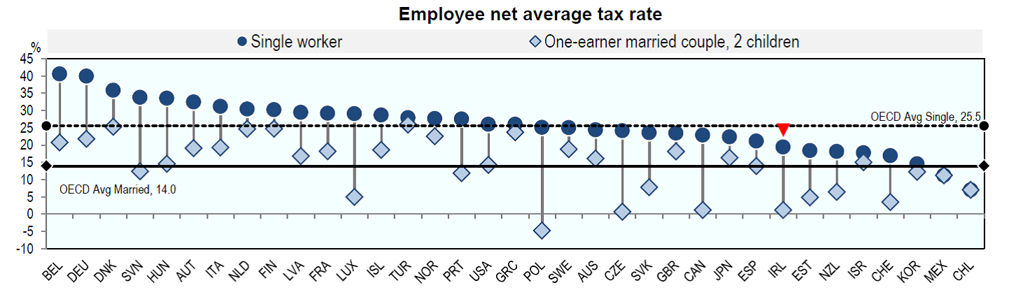 Recreation of the OECD chart of effective employment tax rate (single and married) in 2017